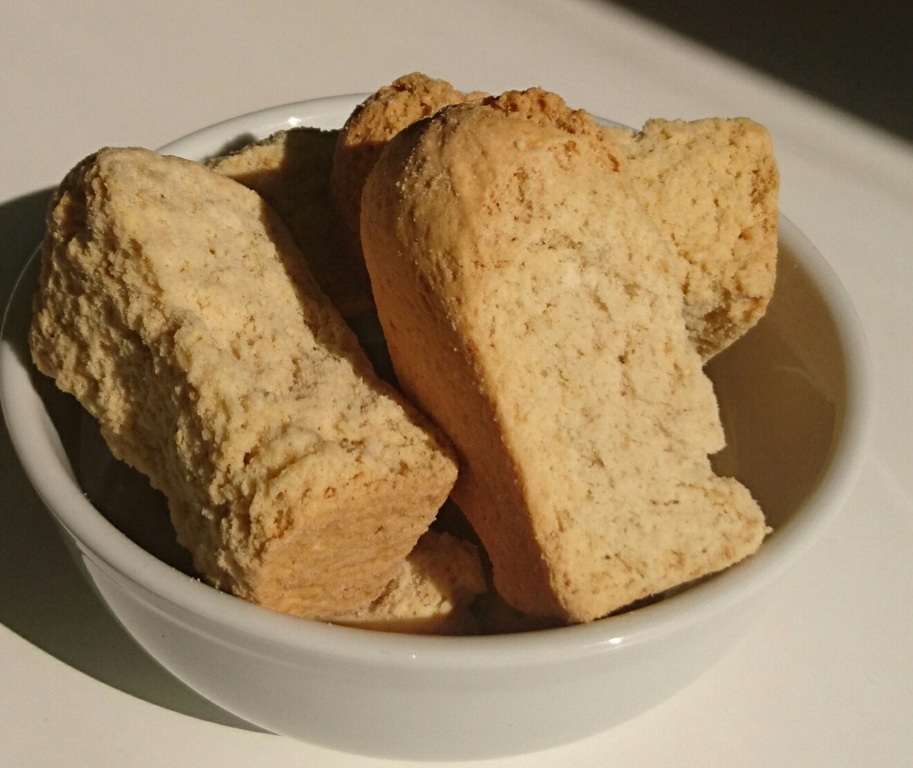 A bowl of plain flavoured Ouma Rusks from South Africa.